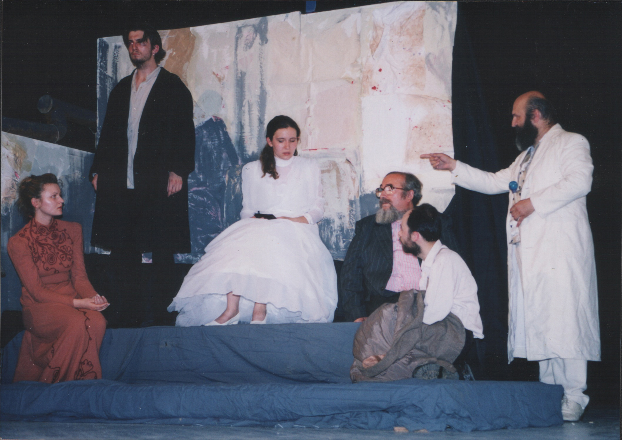 Theatre play "Crime and Punishment" (by Fyodor Dostoyevsky) played by the actors of the Correspondence Theatre and Drama Art Scene. Actors: Mladen Dražetin, Vladimir Stojanov and others.